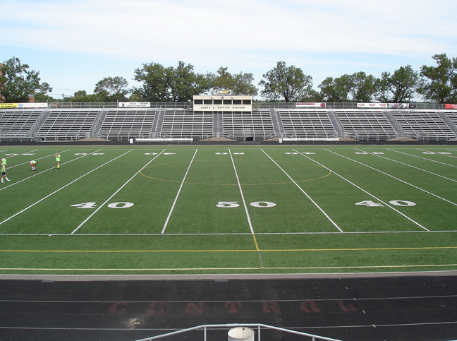 Overhead snapshot of James Griffin Stadium